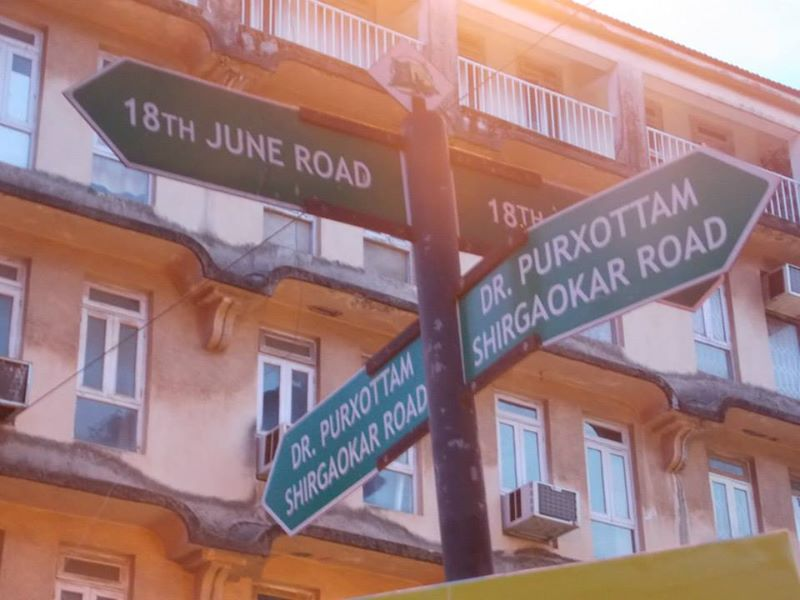 18th june Road , panjim , Goa